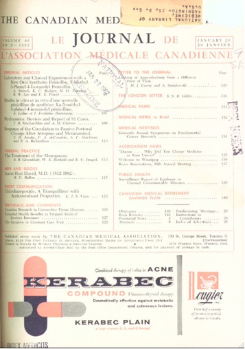 A picture of the cover of the Canadian Medical Association Journal's 86th issue, with a list of articles, including Dr. Le Vann's work on Chlordiazepoxide